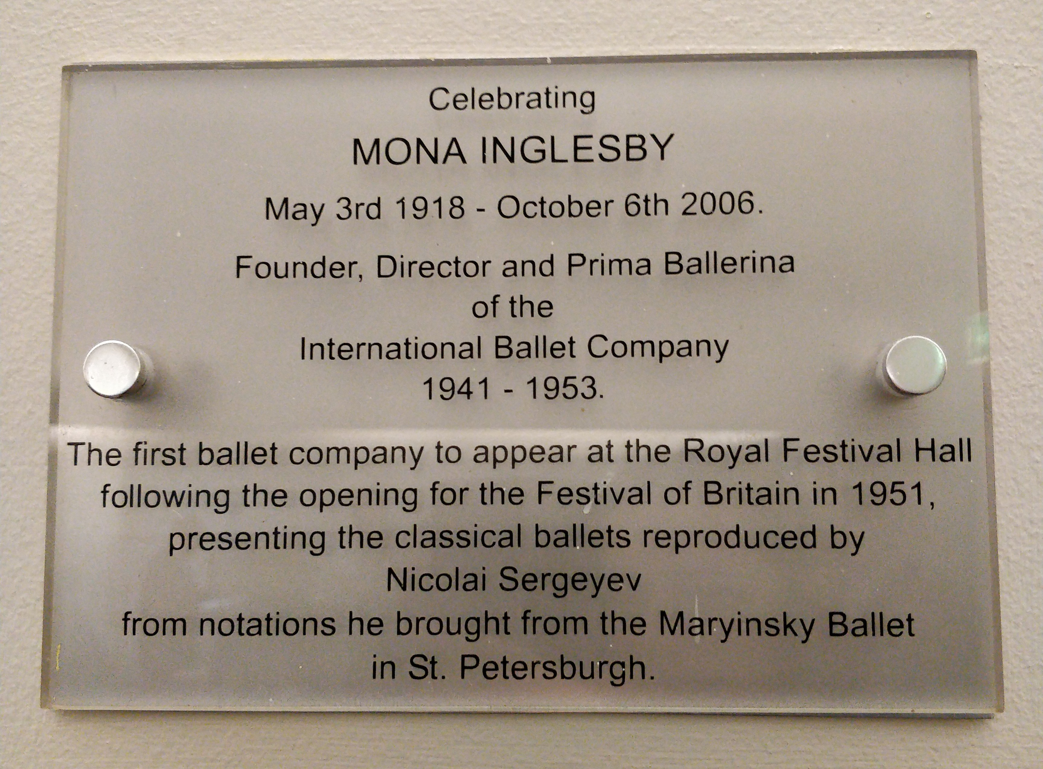 Celebrating Mona Inglesby May 3rd 1918 - October 6th 2006 Founder, director and prima ballerina of the International Ballet Company 1941 - 1953 The first ballet company to appear at the Royal Festival Hall following the opening for the Festival of Britain in 1951, presenting the classical ballets reproduced by Nicolai Sergey events from notations he brought from the Maryinsky Ballet in St. Petersburg